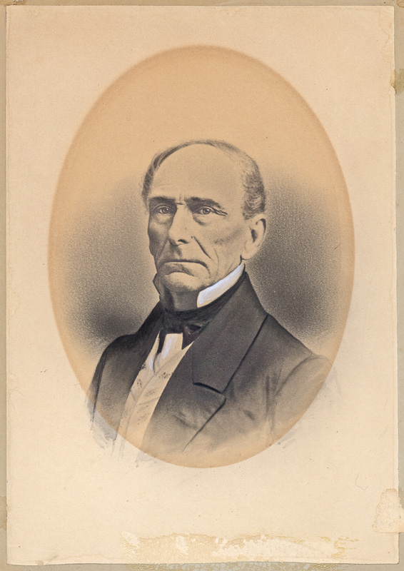 Abner B. Thompson, Treasurer of Maine